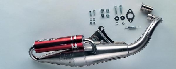 Tuning exhaust Hebo Sport for two-stroke scooter.